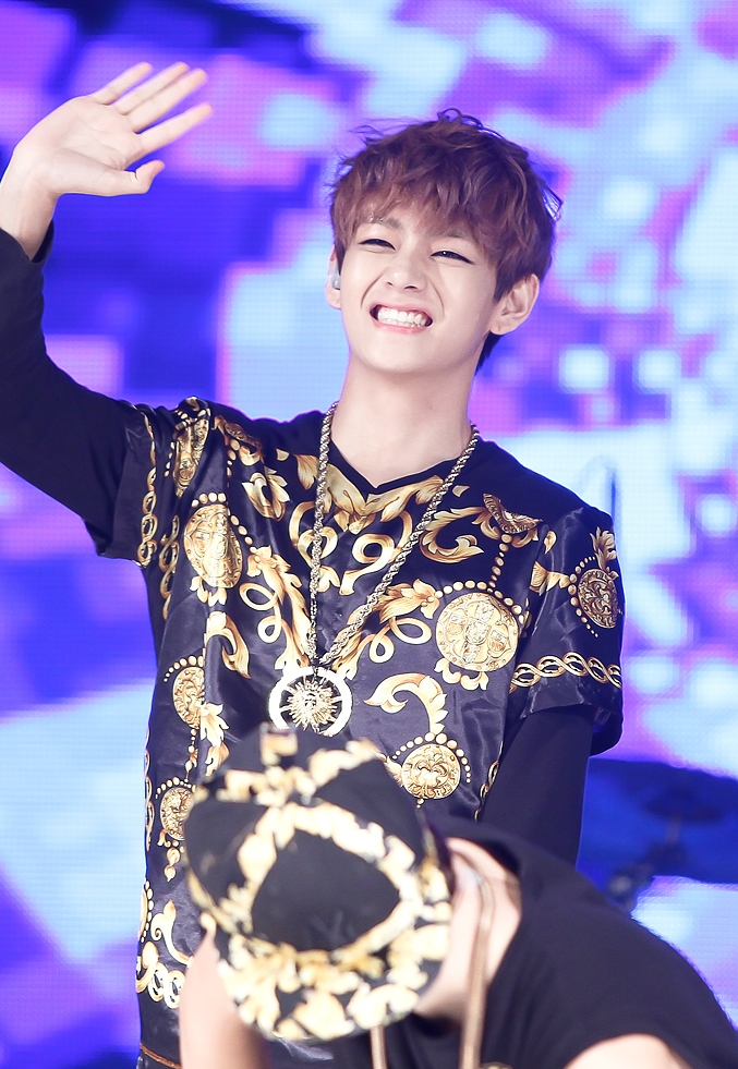 V (Kim Tae-hyung) at the Jeonju Vivid Rock Festival in August 21, 2013.